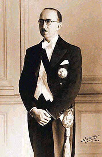 Bustmante y Rivero